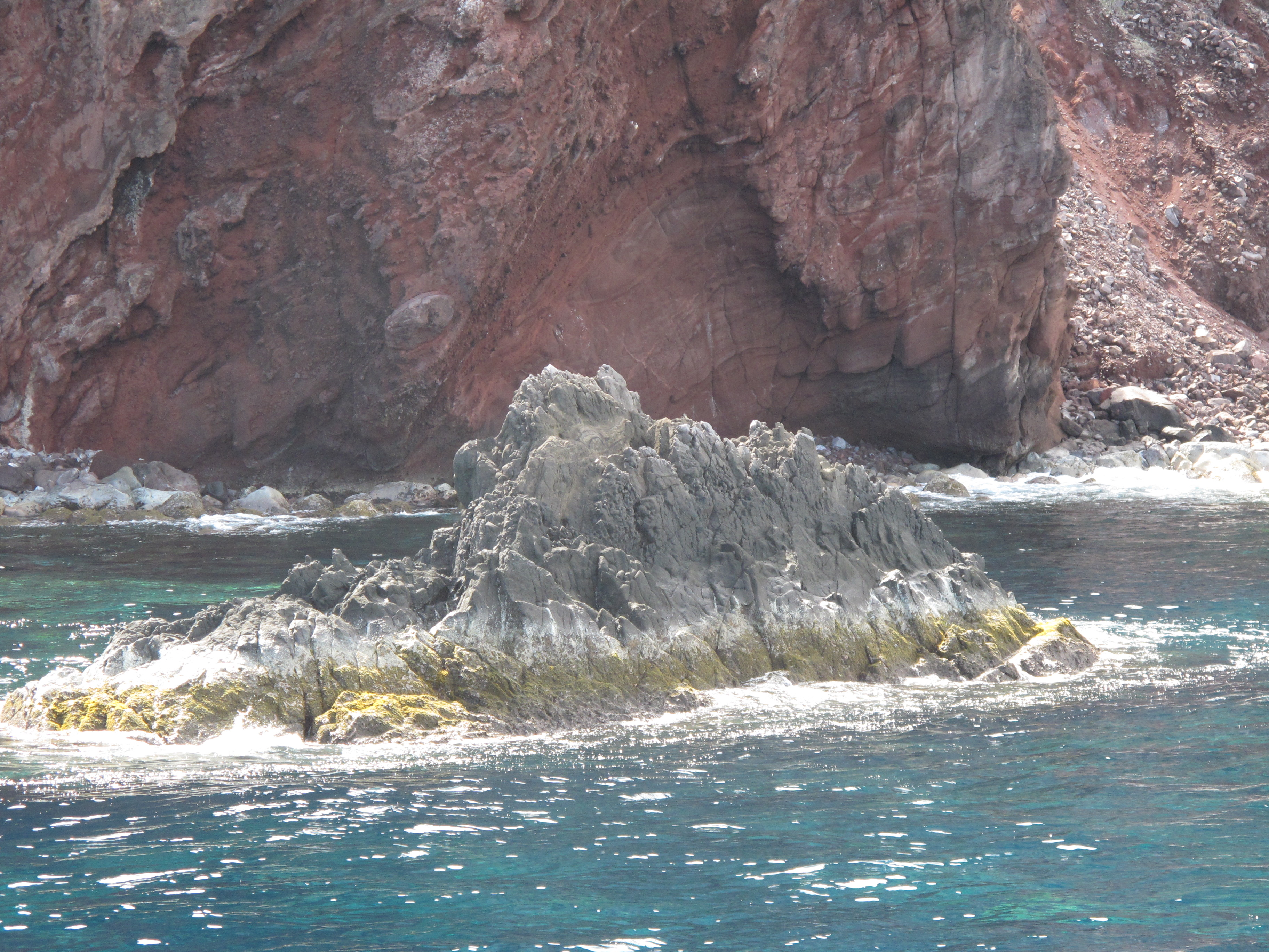 A detail of the west coast of the uninhabited island of Redonda, Leewards Islands, West Indies, shows the base of reddish volcanic rock cliffs and a small rock islet with a visible intertidal algal zone